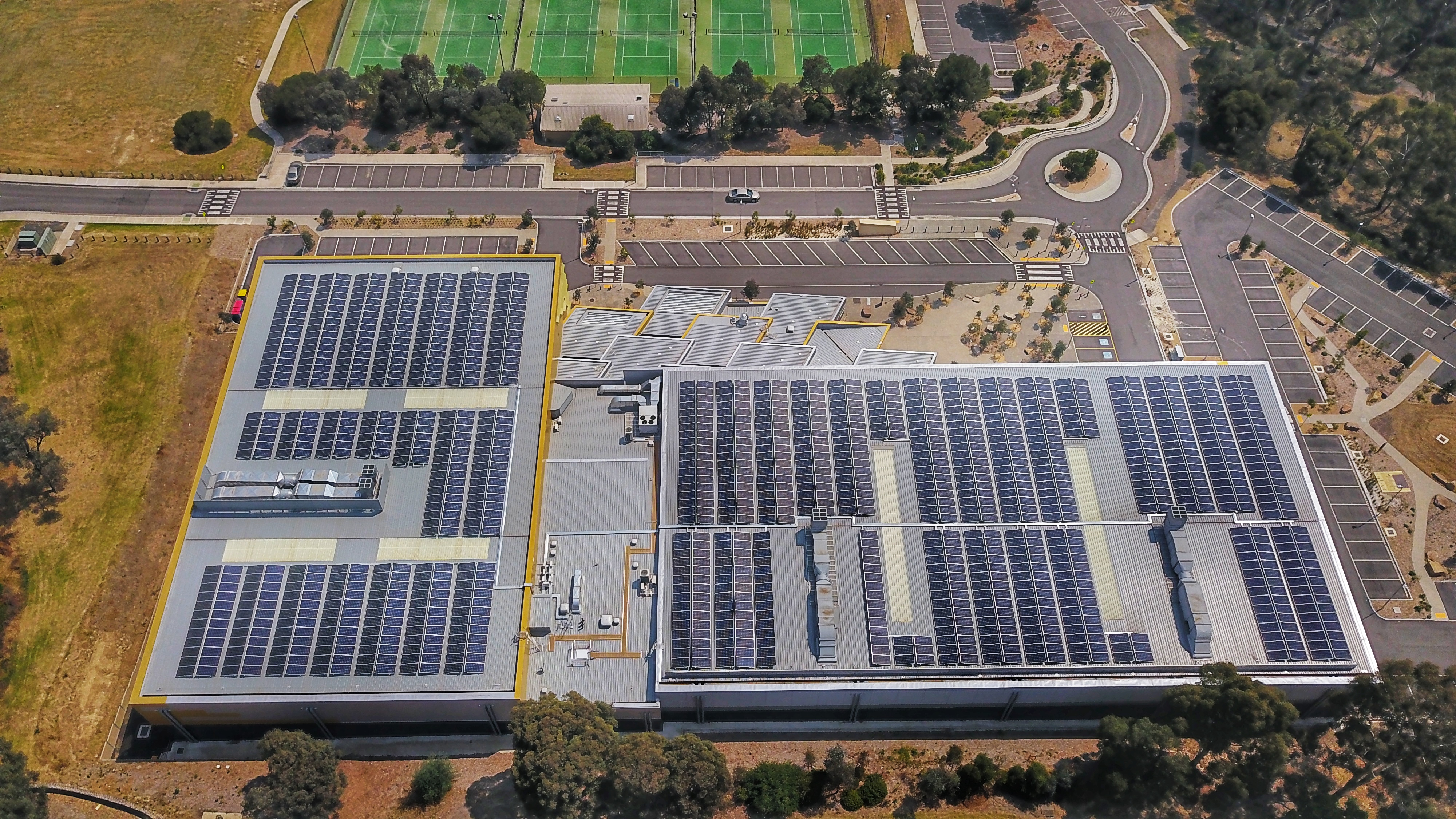 Mullum Mullim Stadium from the air